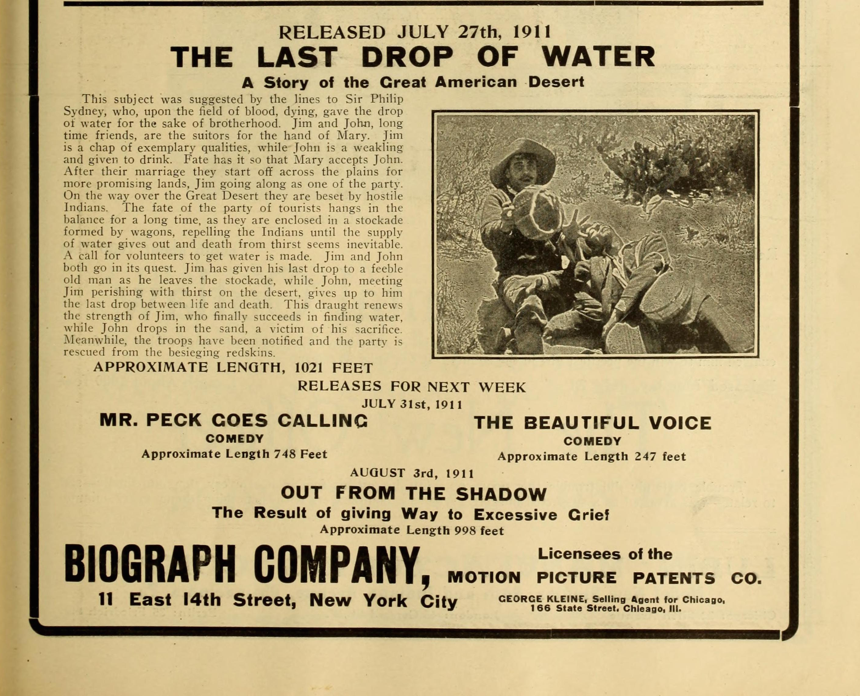 Advertisement for the American film The Last Drop of Water (1911).